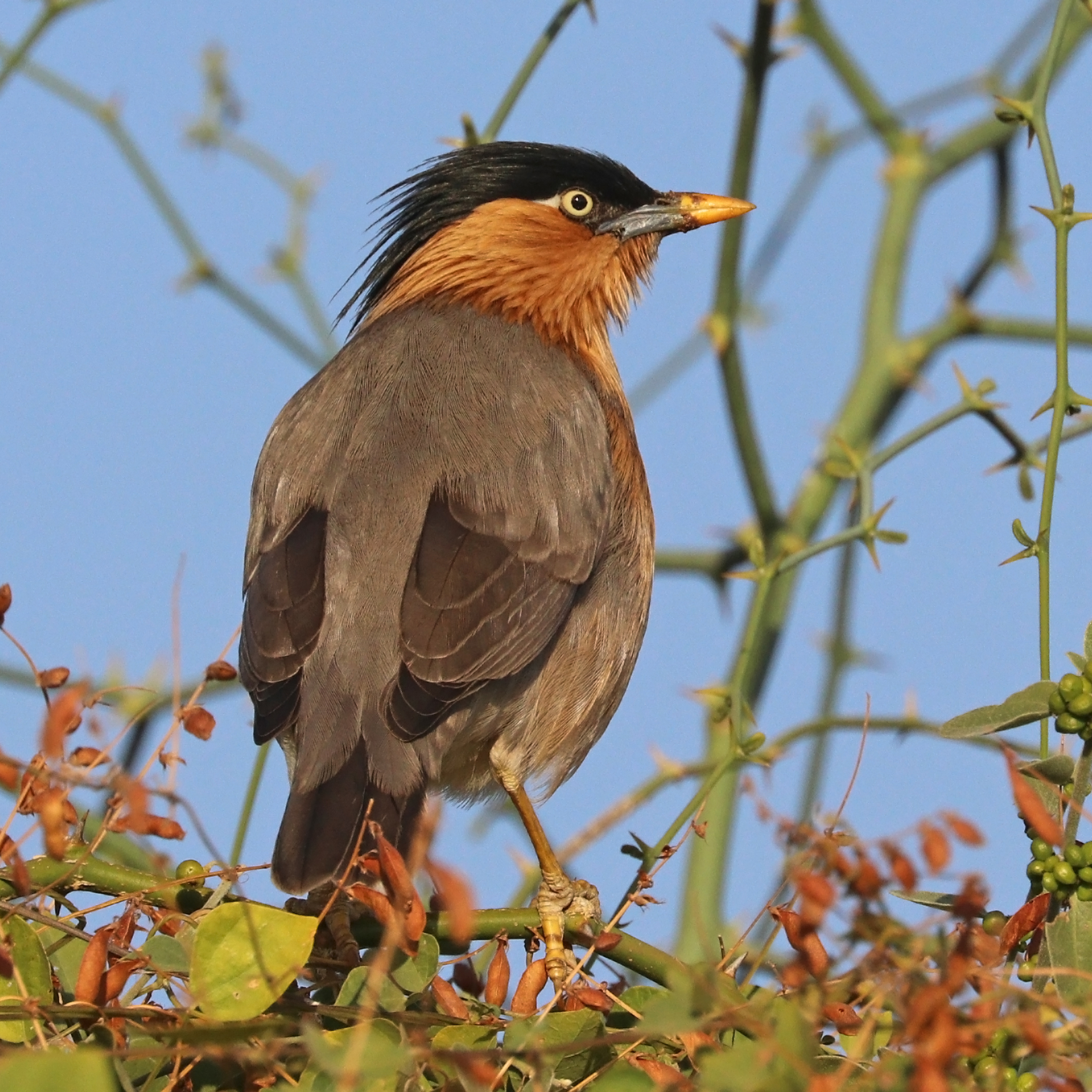 Brahminy starling (Sturnia pagodarum) male, Jawai, Rajasthan, India